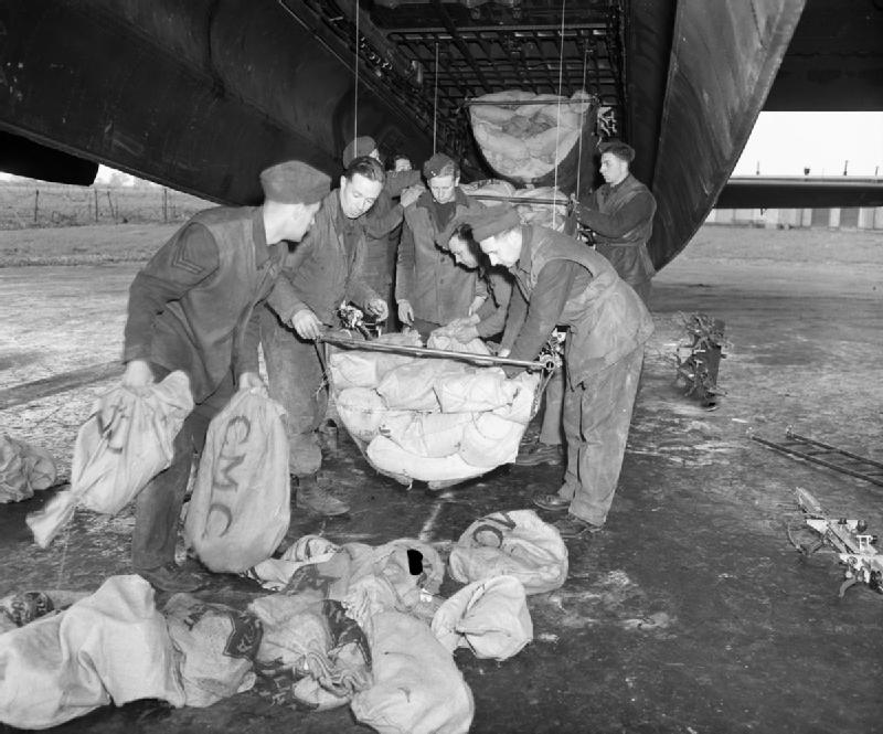 Operation MANNA. Ground crew loading food supplies into slings for hoisting into the bomb bay of an Avro Lancaster of No. 514 Squadron RAF at RAF Waterbeach, Cambridgeshire, UK.